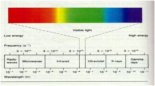 specturm of light